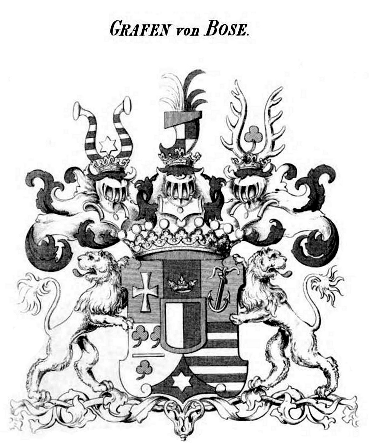 Wappen Bose - Tyroff HA.jpg